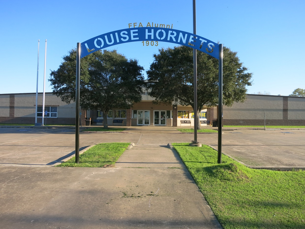 Photo shows the Louise High School at 505 Hackberry Street, Louise, TX 77455. It shows the Louise Hornets sign. View is toward the southeast.